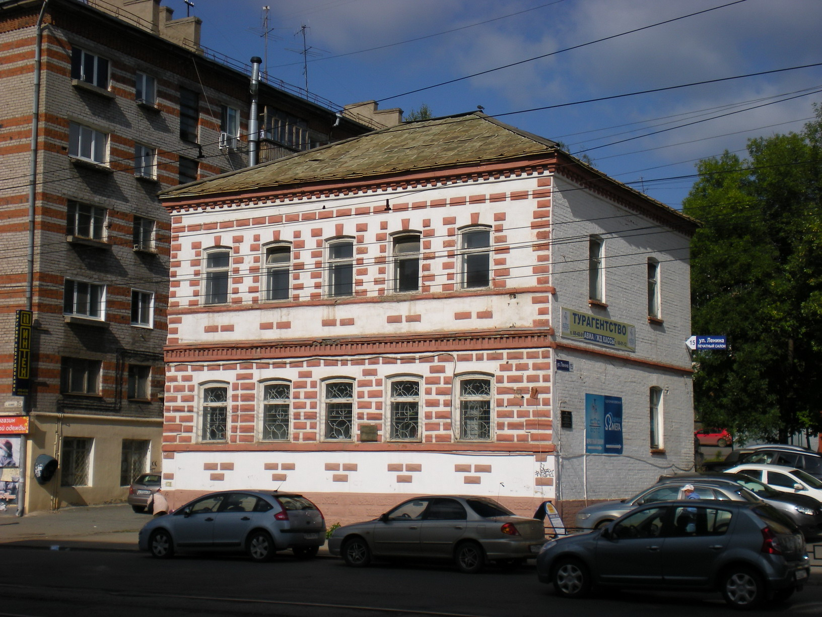 The house of the official I. L. Vasilyev (Izhevsk, Lenina Street, 15)Удмурт: И. Л. Васильев чиновниклэн юртэз (Иж кар, Ленин урам, 15)